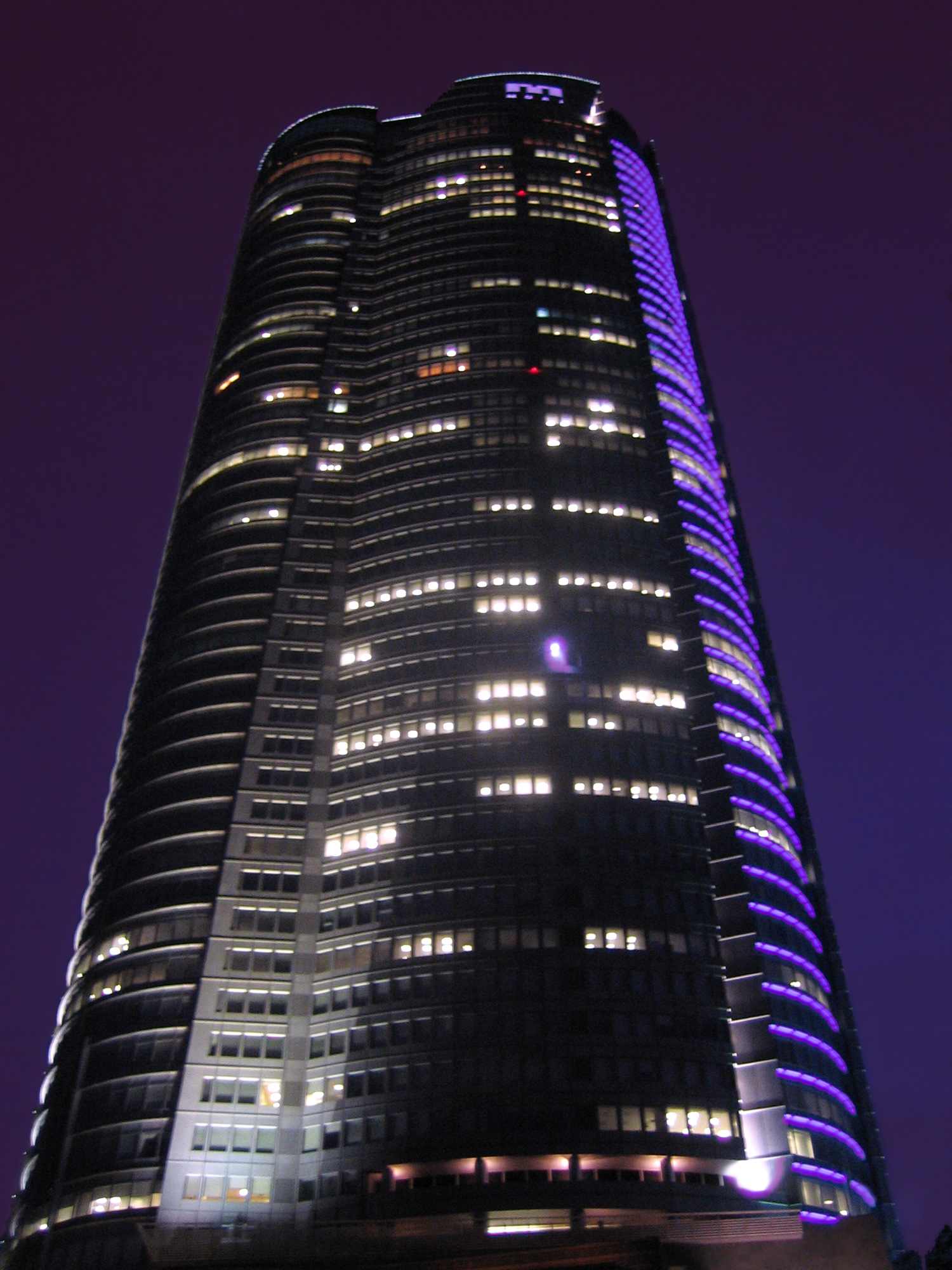 Roppongi Hills Mori Tower (六本木ヒルズ森タワー), Minato, Tokyo, Japan